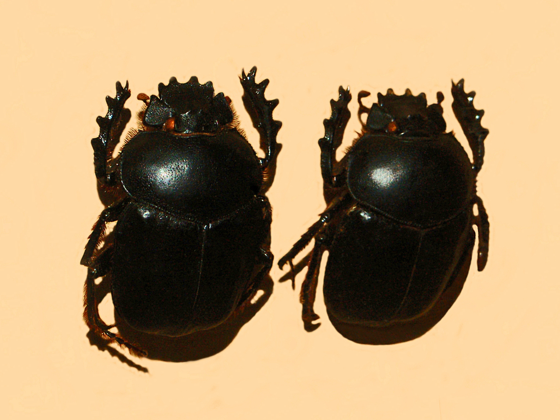 Scarabaeus sacer. Mounted specimen